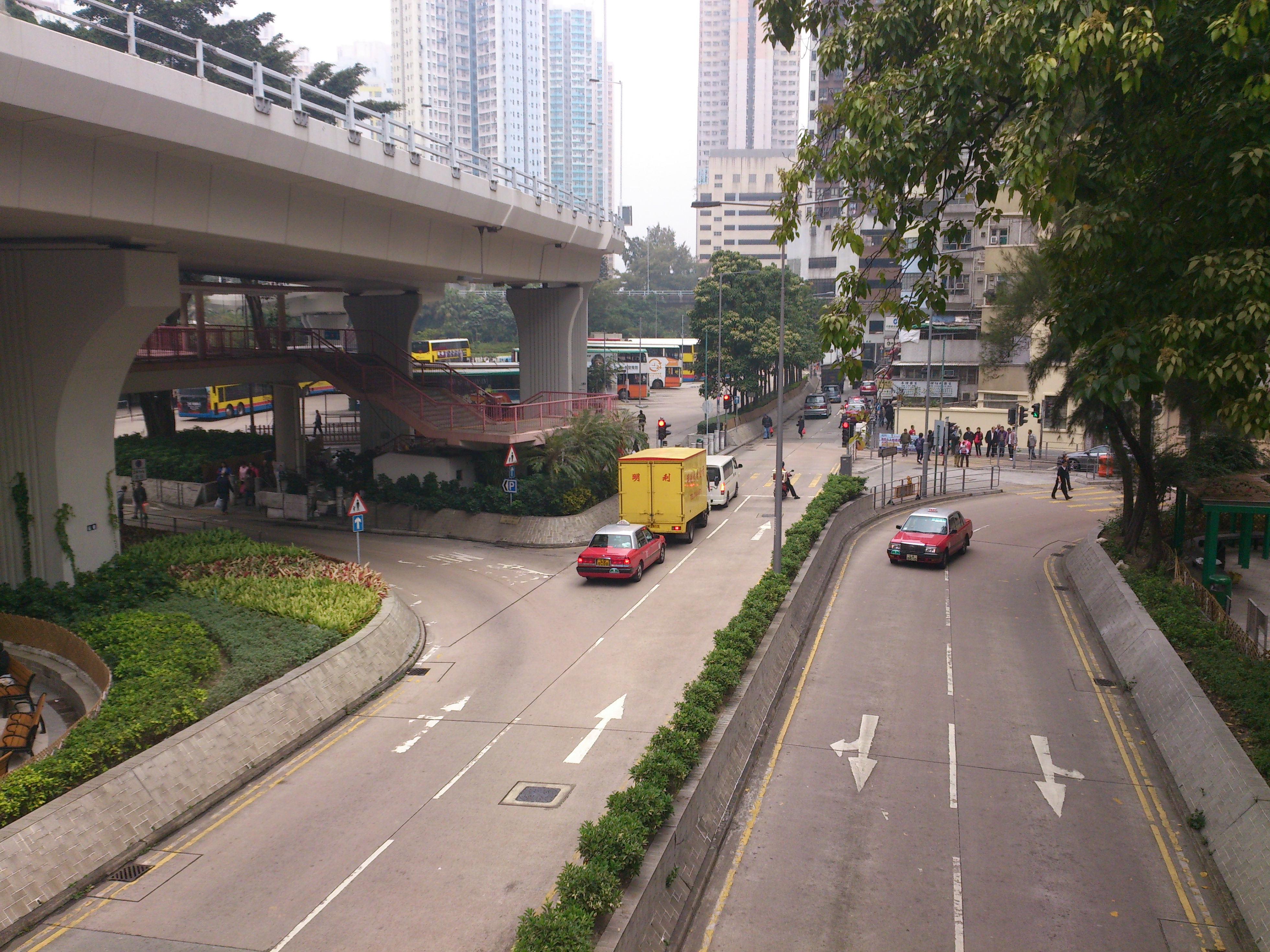 Aldrich Street towards Factory Street